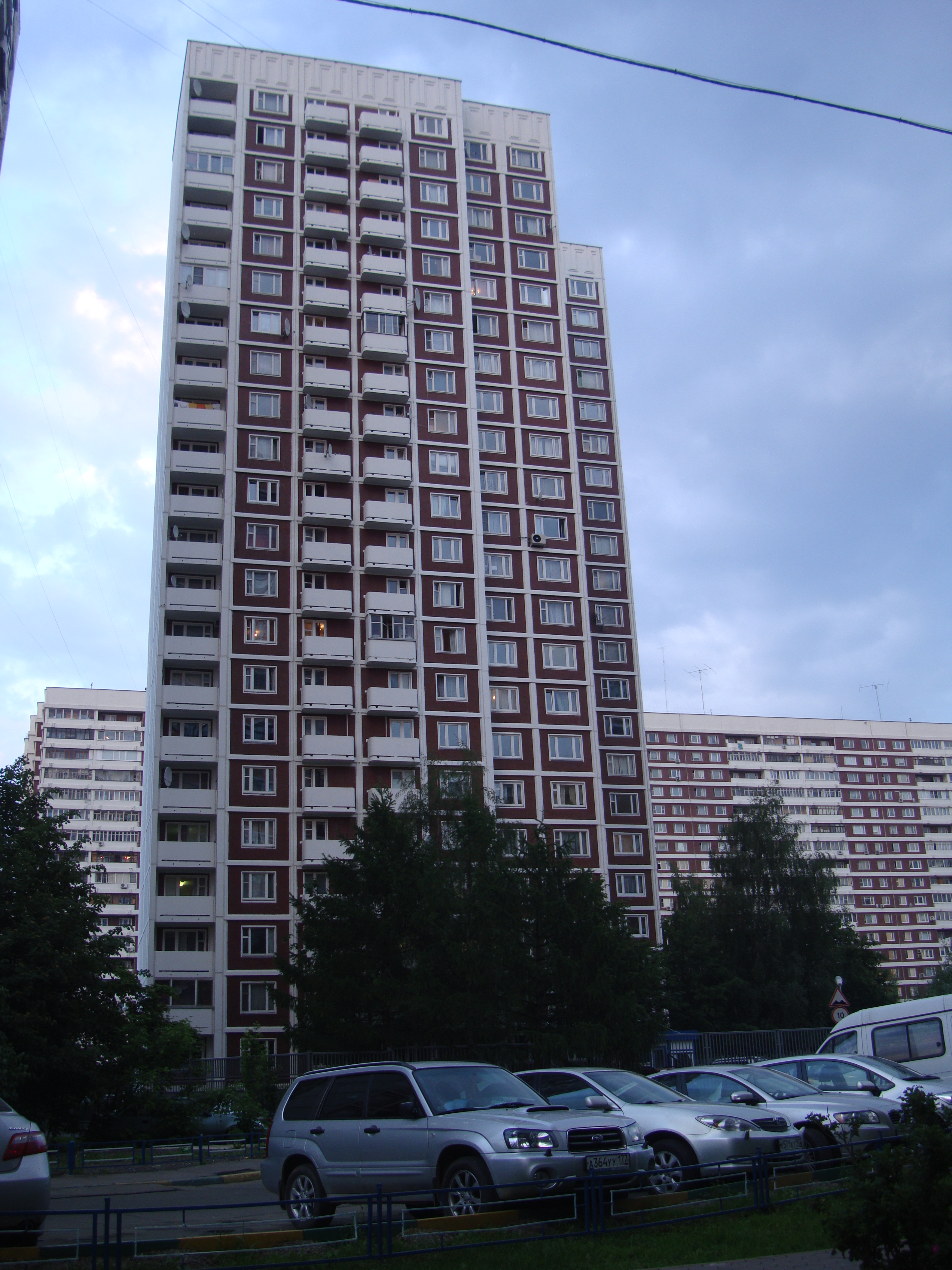 14/3 Akademika Pilugina street, Moscow, Russia. Embassy of Chad.